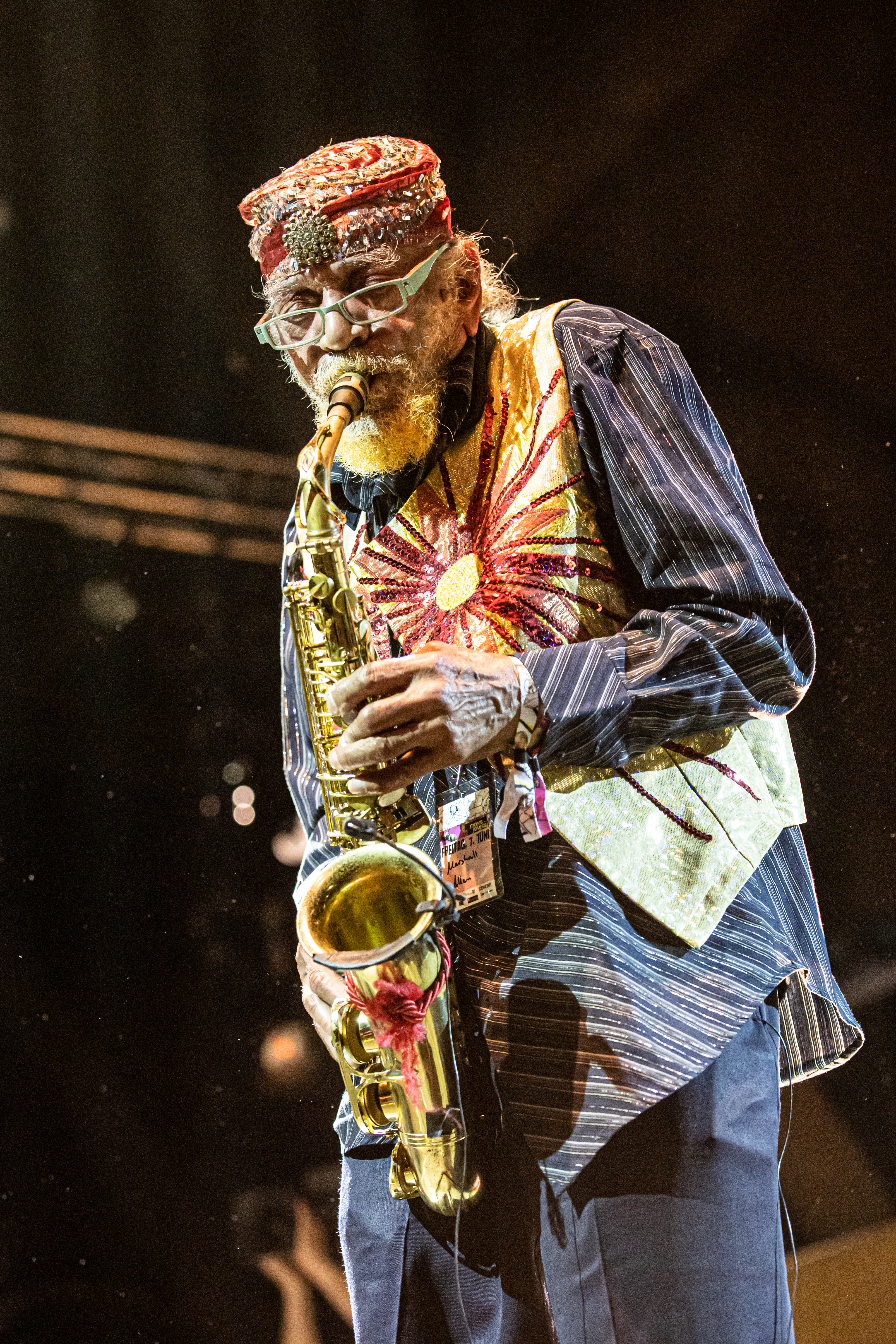 Jazz musician Marshall Allen at the Moers Festival 2019